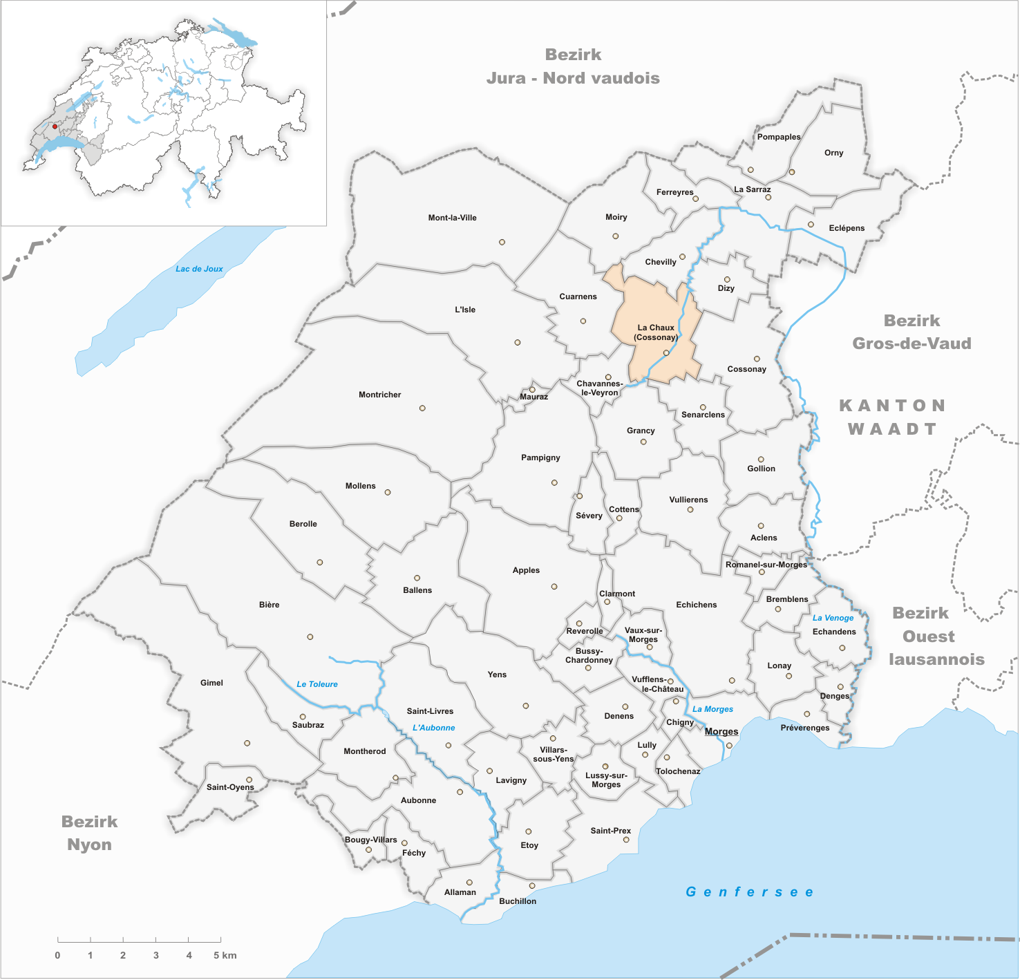 Municipality La Chaux (Cossonay)